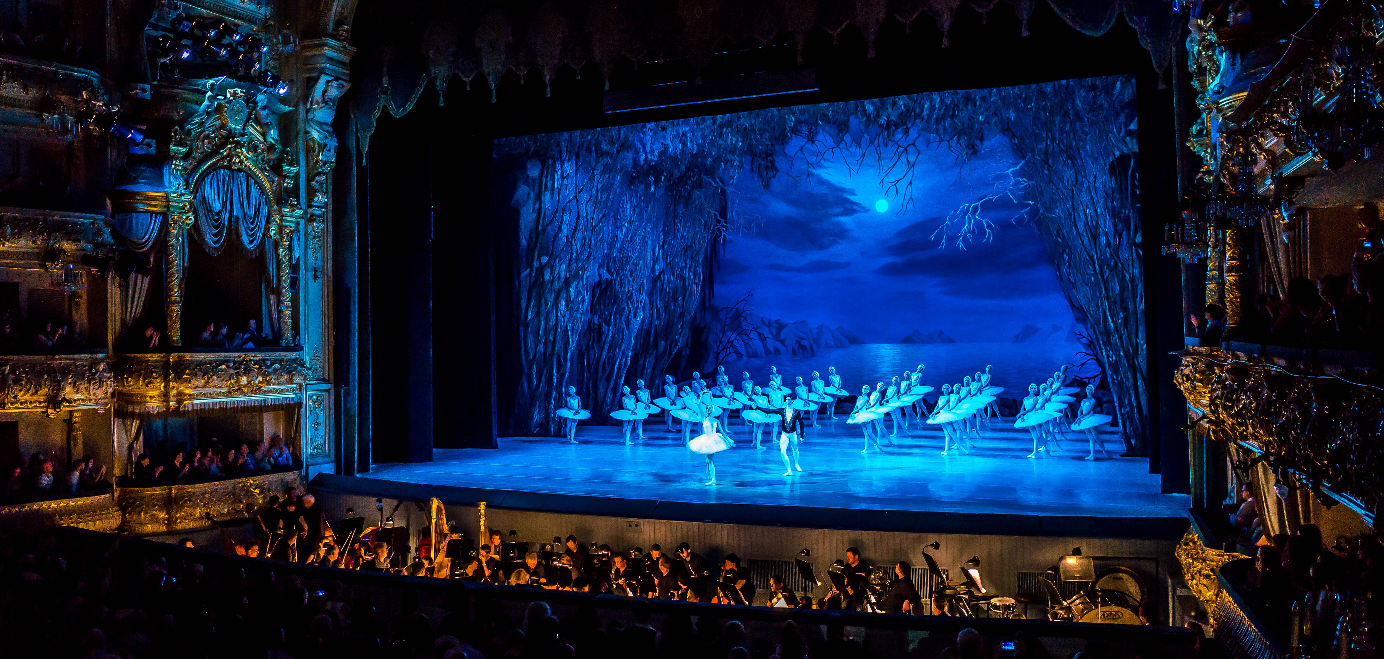 Swan Lake at the Mariinsky Theatre